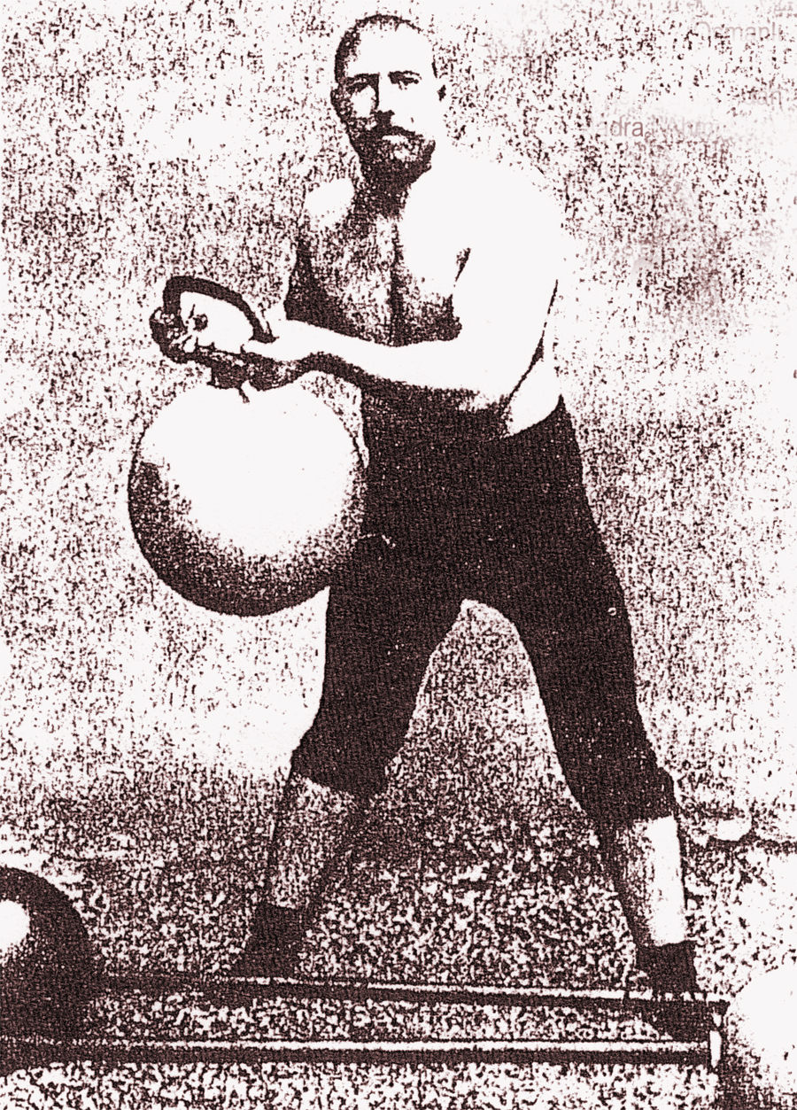 A pehlivan lifts kettlebell